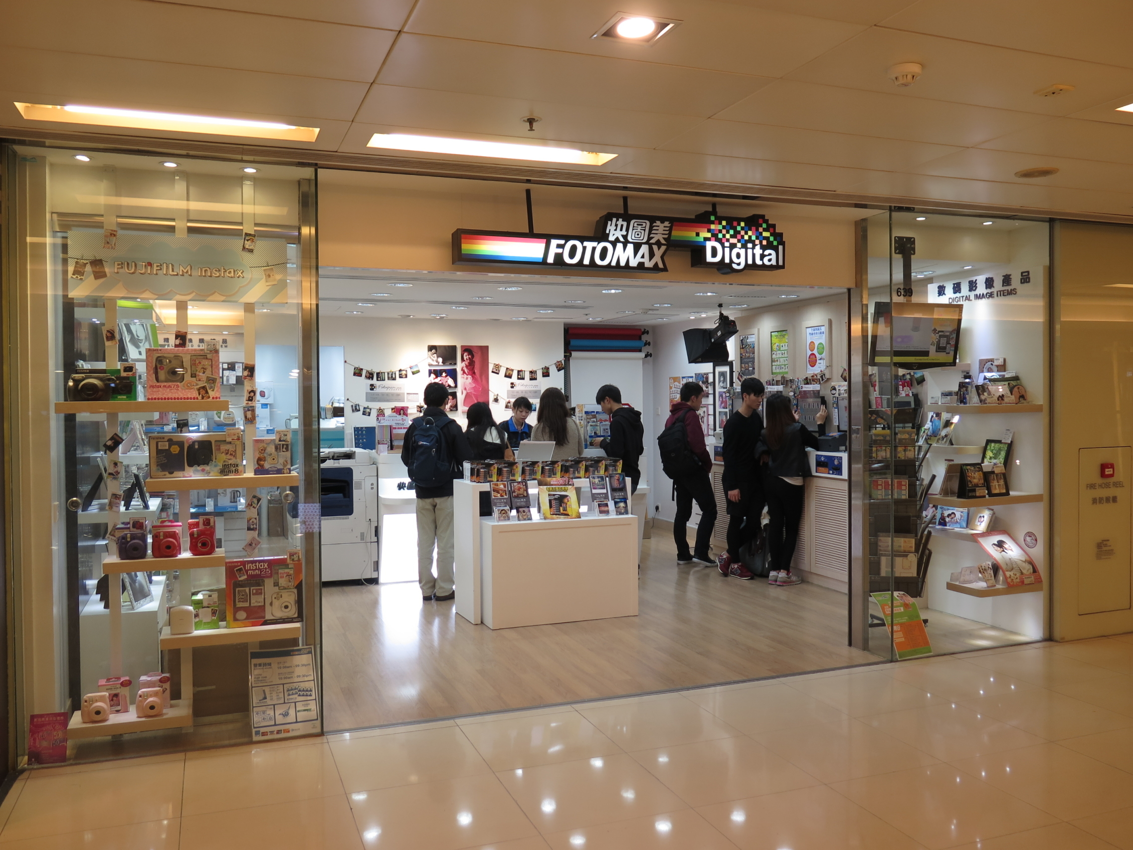 Fotomax in New Town Plaza